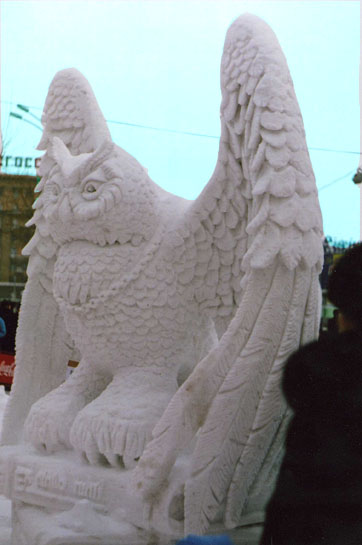 Siberian Festival of Snow Sculptures (Novosibirsk). Snow owl (Novosibirsk authors), first prize - 2007